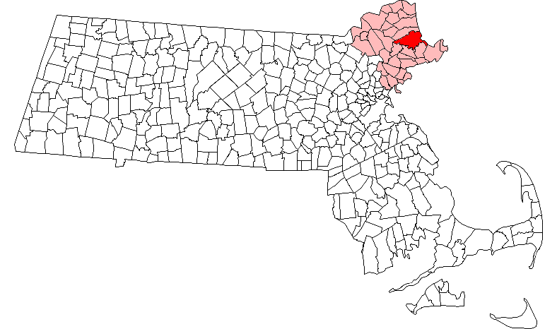 Map of Massachusetts towns with Ipswich highlighted (red) inside Essex County (light red).